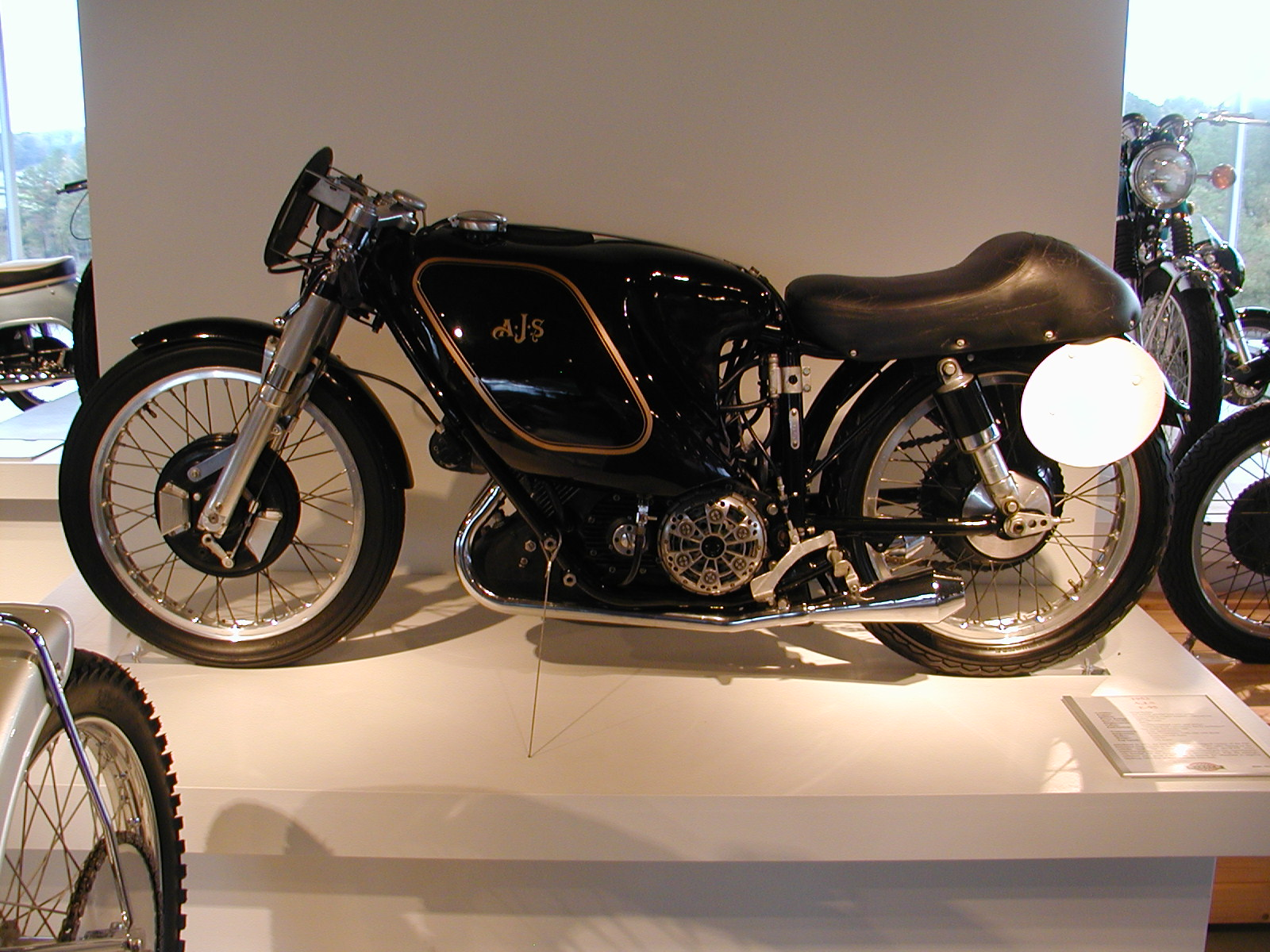 Barber Motorcycle Museum - Oct 22 2006 (205) 1953 AJS E-95 / More description is here